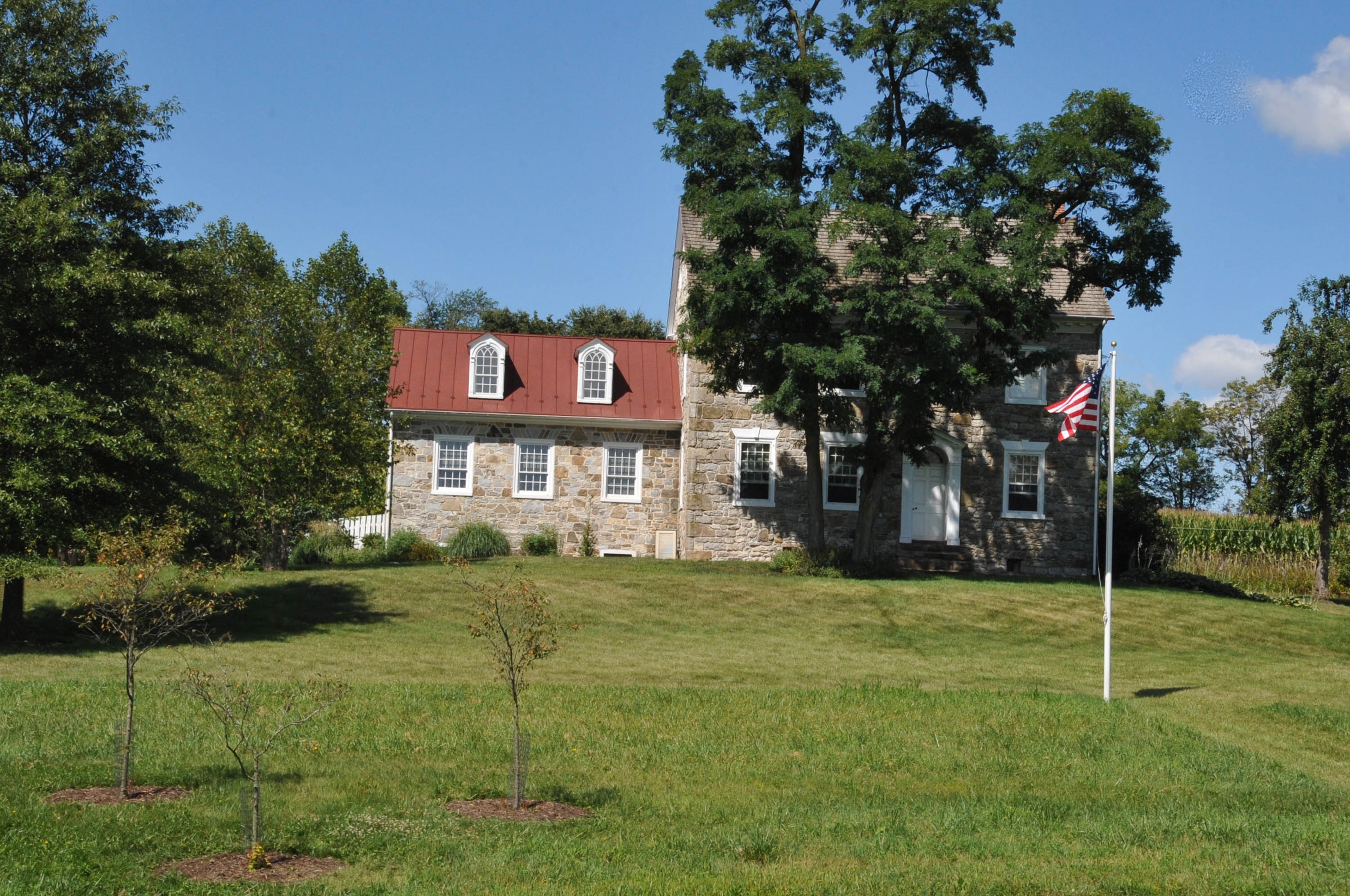 AKA RICHLAND; JEFFERSON TOWNSHIP; 1817; THE SUMMER KITCHEN ON THE LEFT IS AN 1818 ADDITION WITH THE DORMERS ADDED RECENTLY. THE MOYER FAMILY WERE AMONGST A GROUP OF GERMAN LUTHERANS WHO MOVED FROM THE SCHOHARIE AREA OF NEW YORK TO BERKS COUNTY IN THE EARLY 1700’S